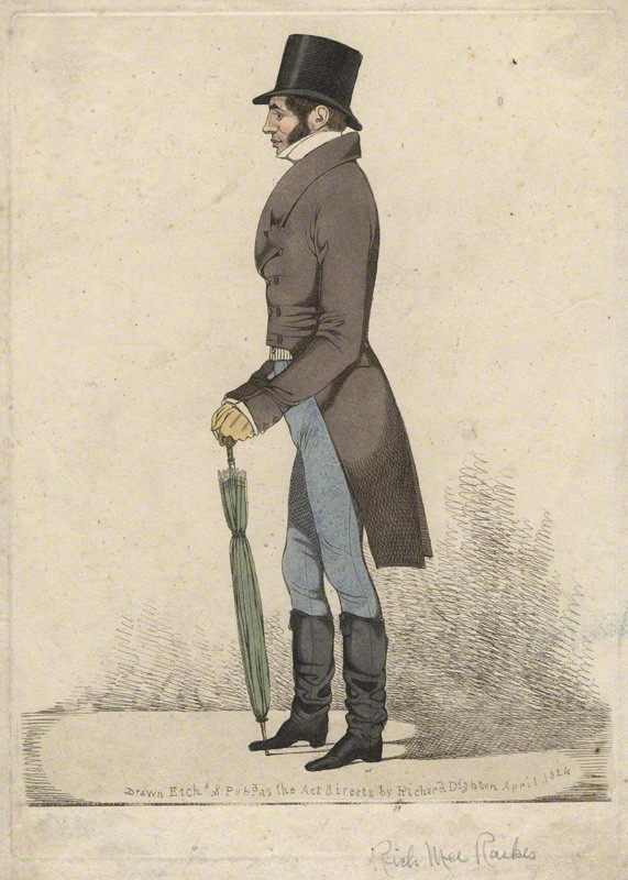 Portrait of Richard Mee Raikes (1784–1863), English banker.